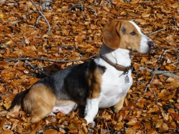 Westfälische Dachsbracke